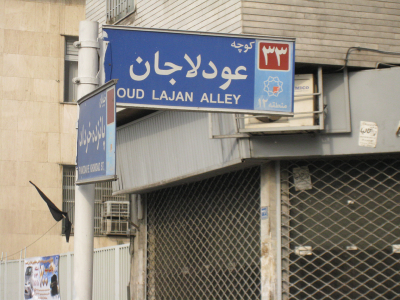 Oud Lajan is a neighbourhood in Tehran, the capital city of Iran.